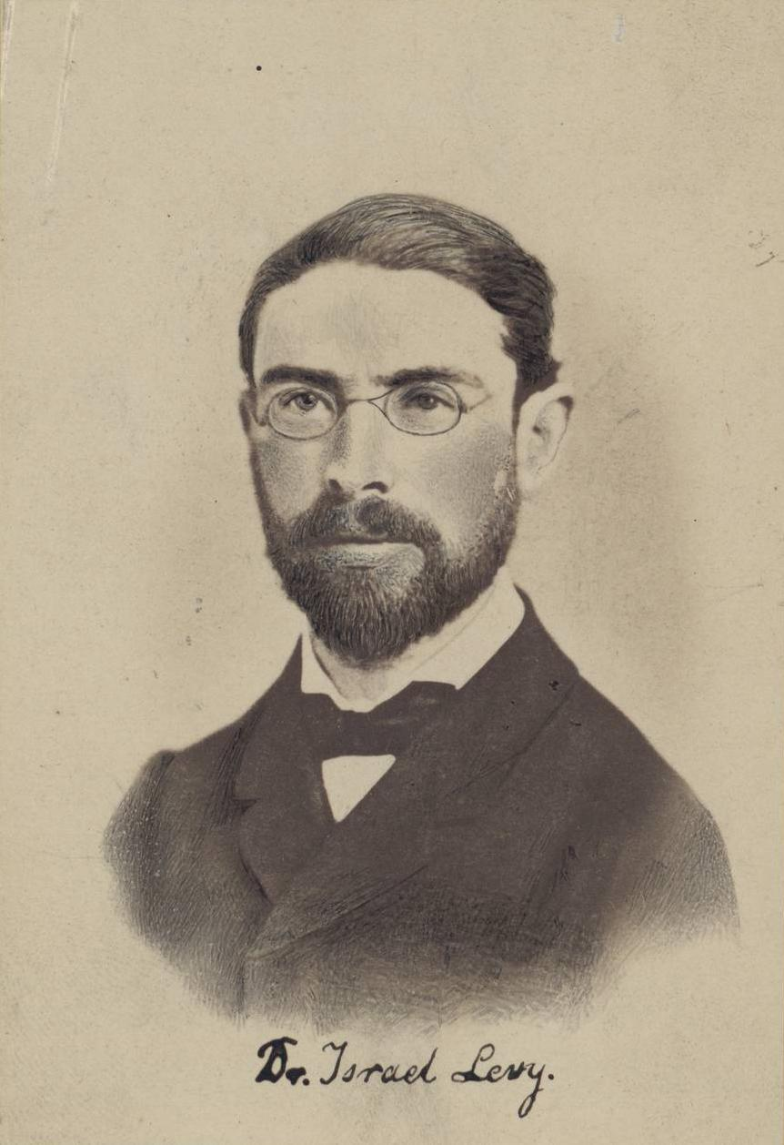 Picture of Israel Lewy